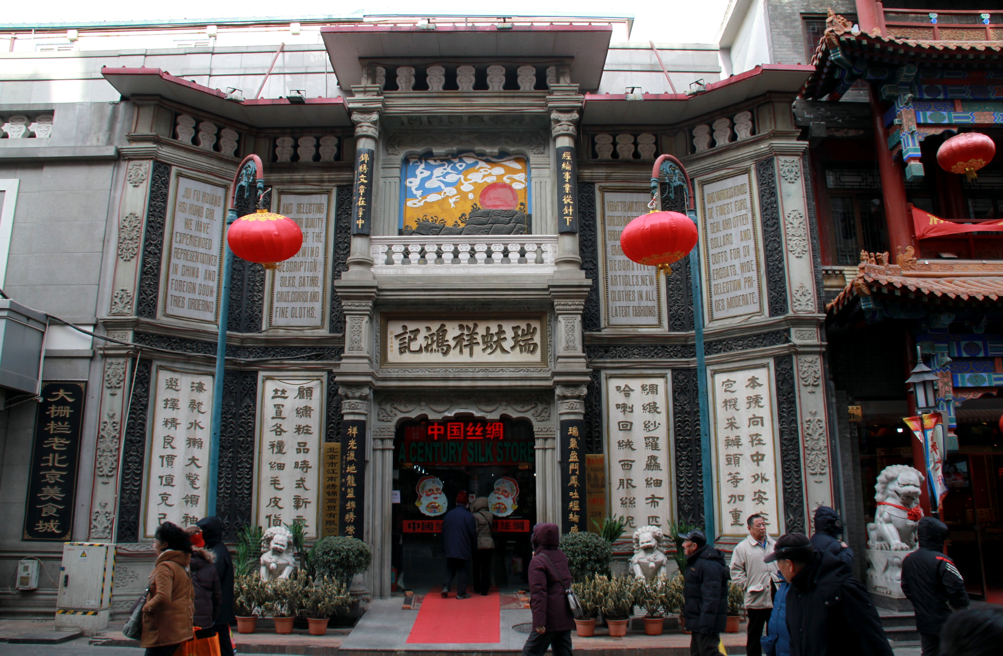 Photograph of the facade of the Rui Fu Xiang Silk Store in Qianmen neighborhood of Beijing, China.